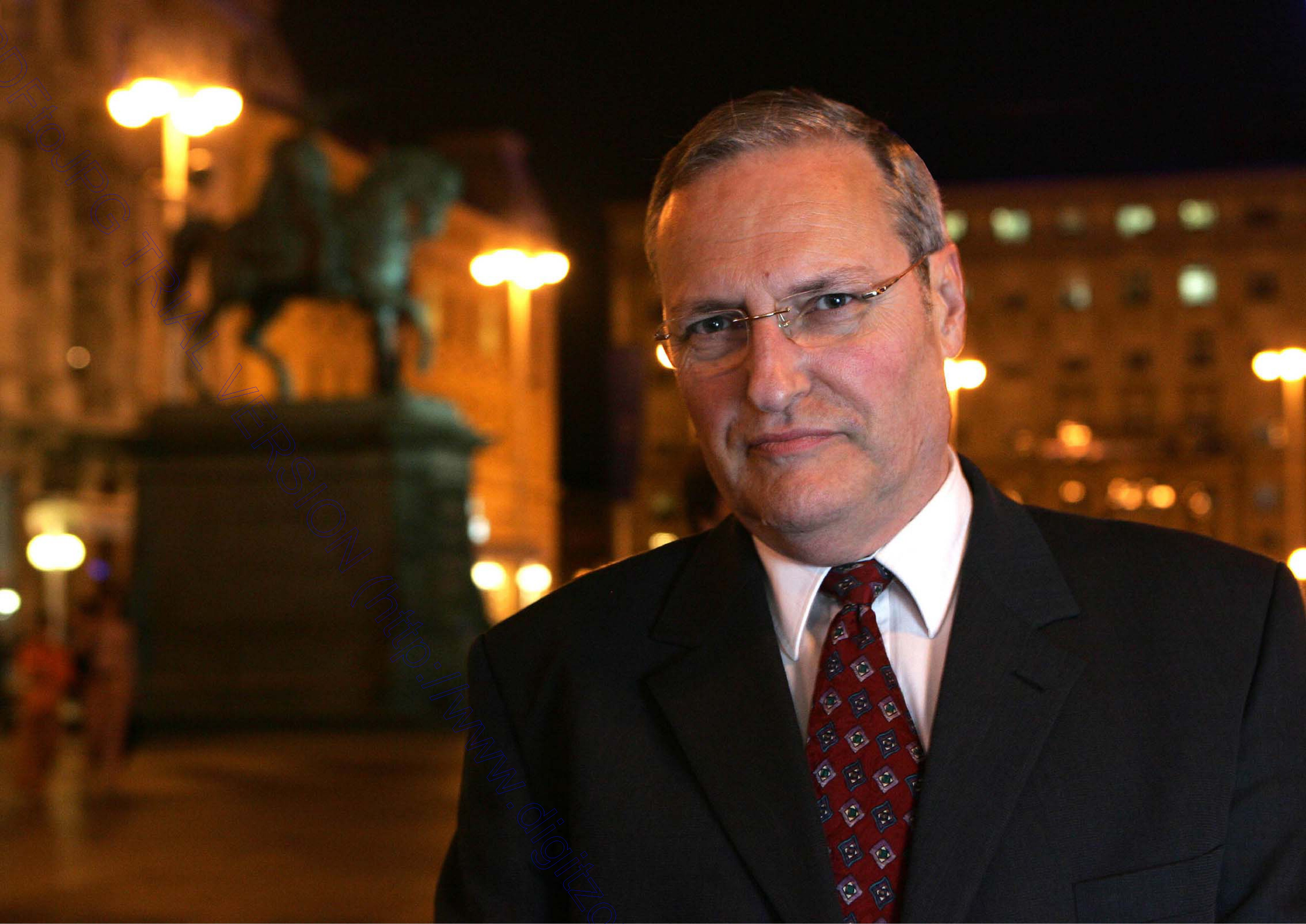 Efraim Zuroff is the present director of the Simon Wiesenthal Center which attempts to identify and bring Nazi war criminals to justice.